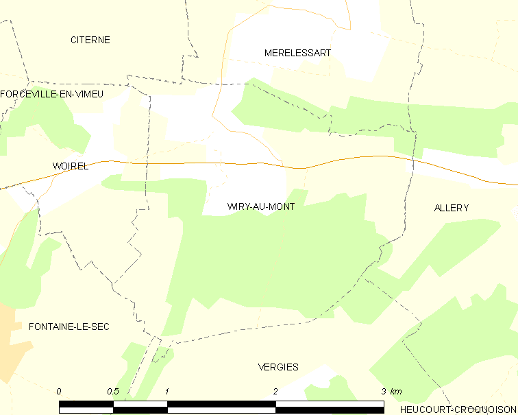 Map of French municipality Wiry-au-Mont